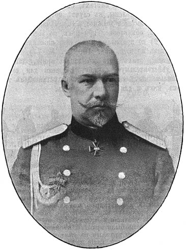 Gershelman, Fyodor Konstantinovich